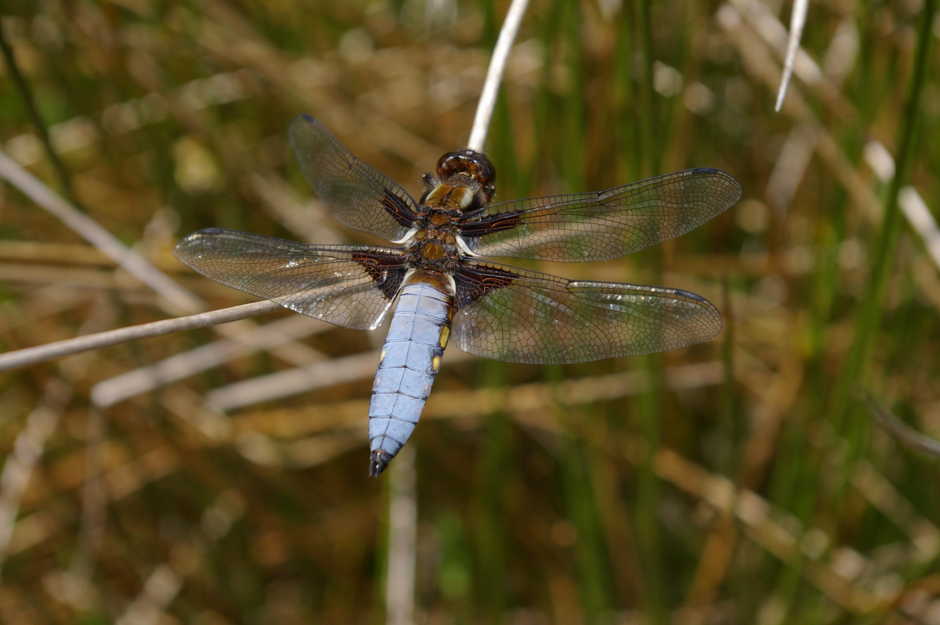 A photo that I took near the Cwm Clydach Nature reserve in South Wales. Samasnookerfan (talk) 18:33, 6 January 2008 (UTC)